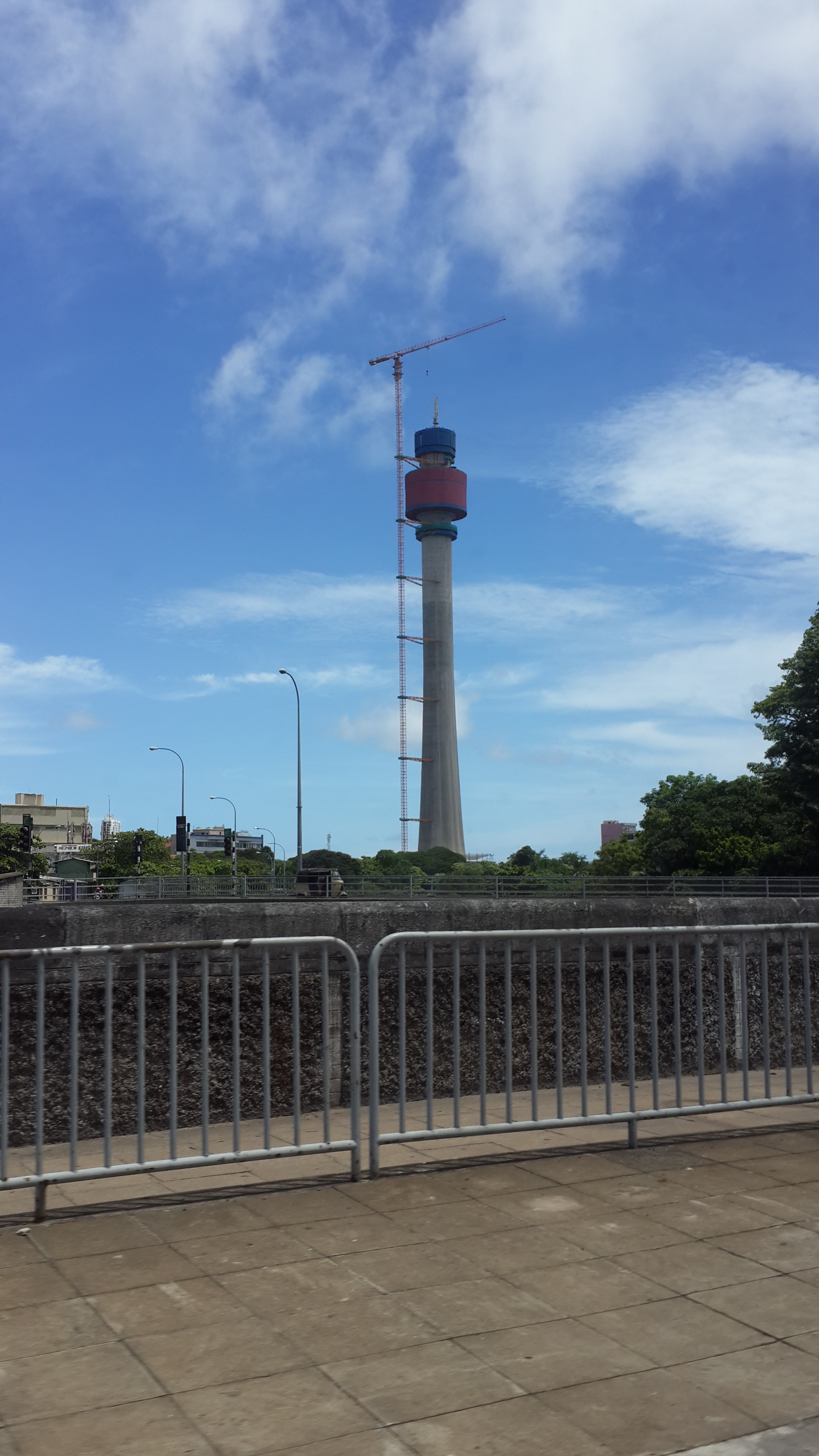 A skyscraper in colombo sri lanka.